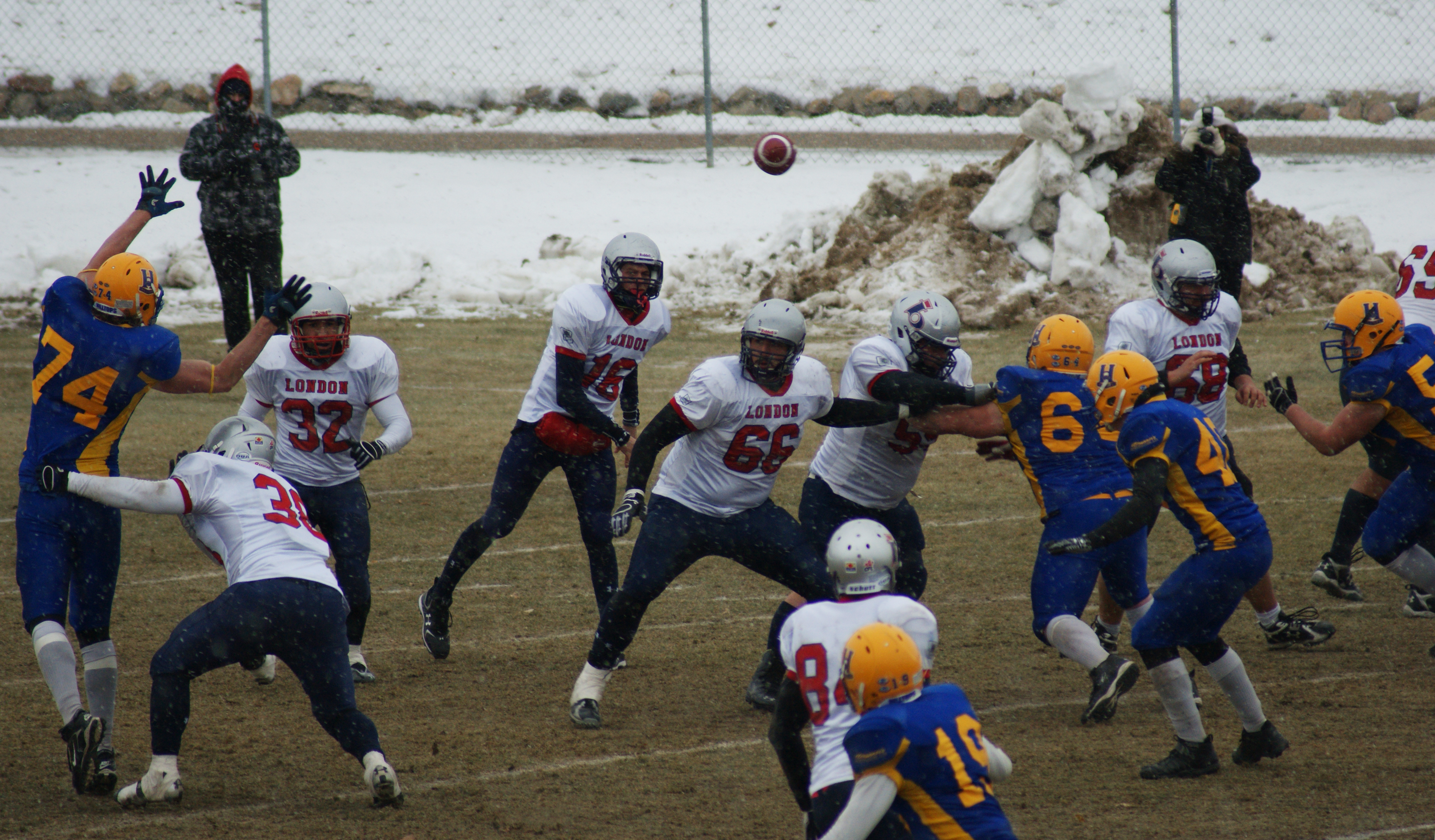 Sunday October 28, 2012 12:00 p.m. London Beefeaters vs Saskatoon Hilltops Junior Football semi final game in the . Category:Canadian Junior Football League. Saskatoon hosted teams from London, Ontario and Saskatoon, Saskatchewan at Gordie Howe Bowl, a football stadium, home of the Saskatoon Hilltops. The game concluded at Saskatoon Hilltops 51 - 7 London Beefeaters. This play...Beefeaters 1 and 10...32 Joel Clubine is the ball carrier for the London Beefeaters brought down by Hilltops 48 Gaetan Lalonde. The Hilltops were the Prairie Football Conference (PFC) champions acquiring their 15th championship trophy at the 36th PFC Championship game against the ReginaThunder Oct 21,2012. On Oct 13, 2012, for the very first time in 37 years, the Beefeaters were declared Ontario Football Conference OFC champions with their win over the Hamilton Hurricanes. The Jostens Cup was awarded to the Saskatoon Hilltops and they go on to play the British Columbia Football Conference Champion for the Canadian Bowl Championship Saturday November 10, 2012 at 1:00 pm with the BCFC hosting the game. The 2012 BCFC Cullen Cup was earned in a 20-13 Langley Rams victory over the Vancouver Island Raiders, therefore, Langley, British Columbia will be host to the Canadian Bowl.